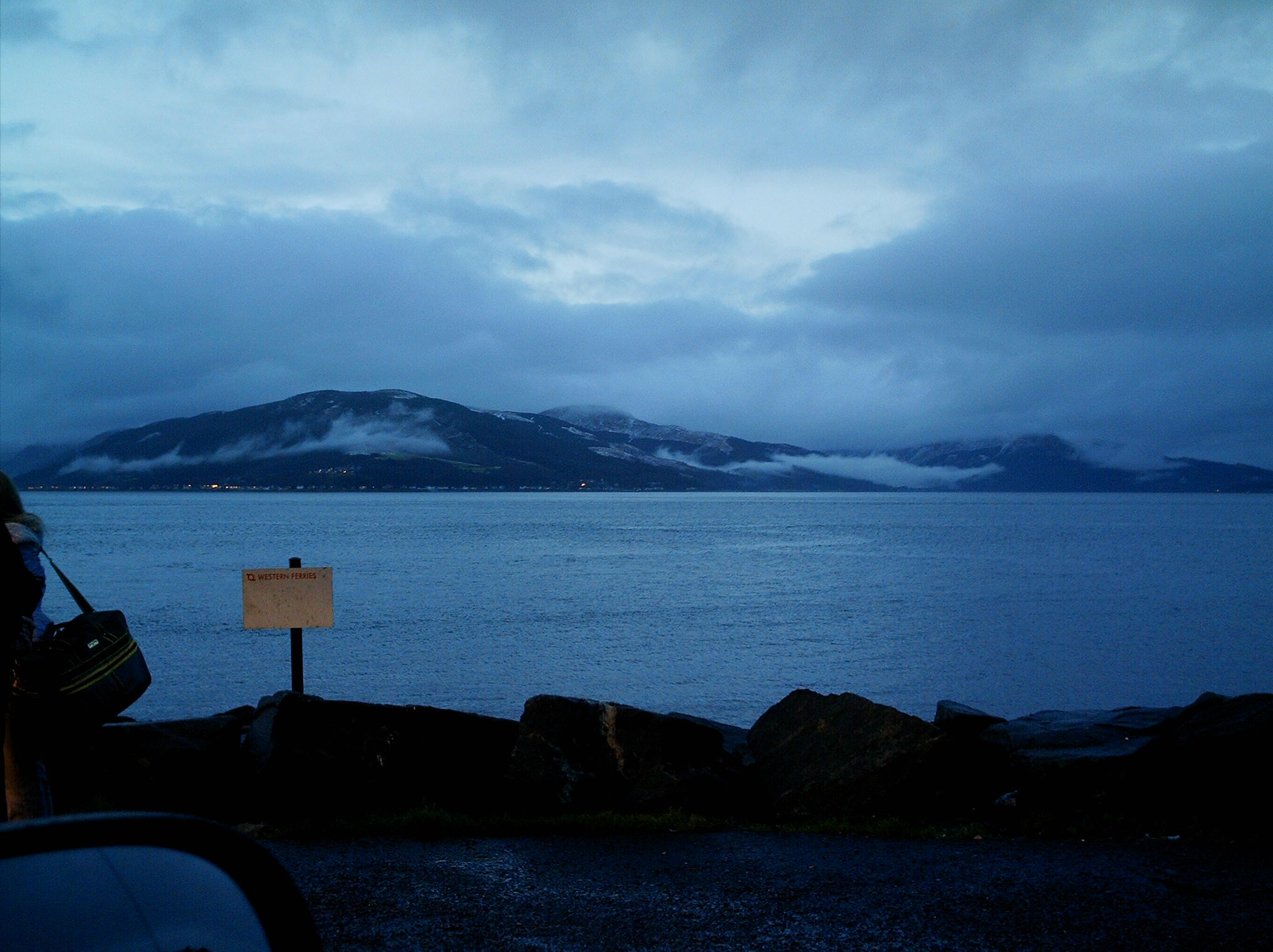 view from McInroys Point Gourock over the Clyde. taken by myself, feel free to use